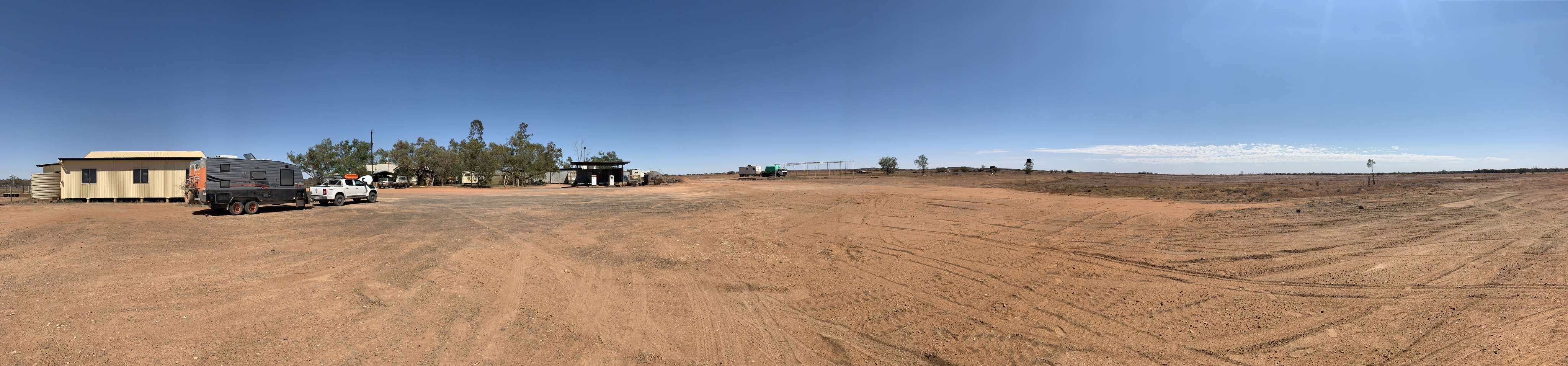 Landscape photo of Noccundra September 2019